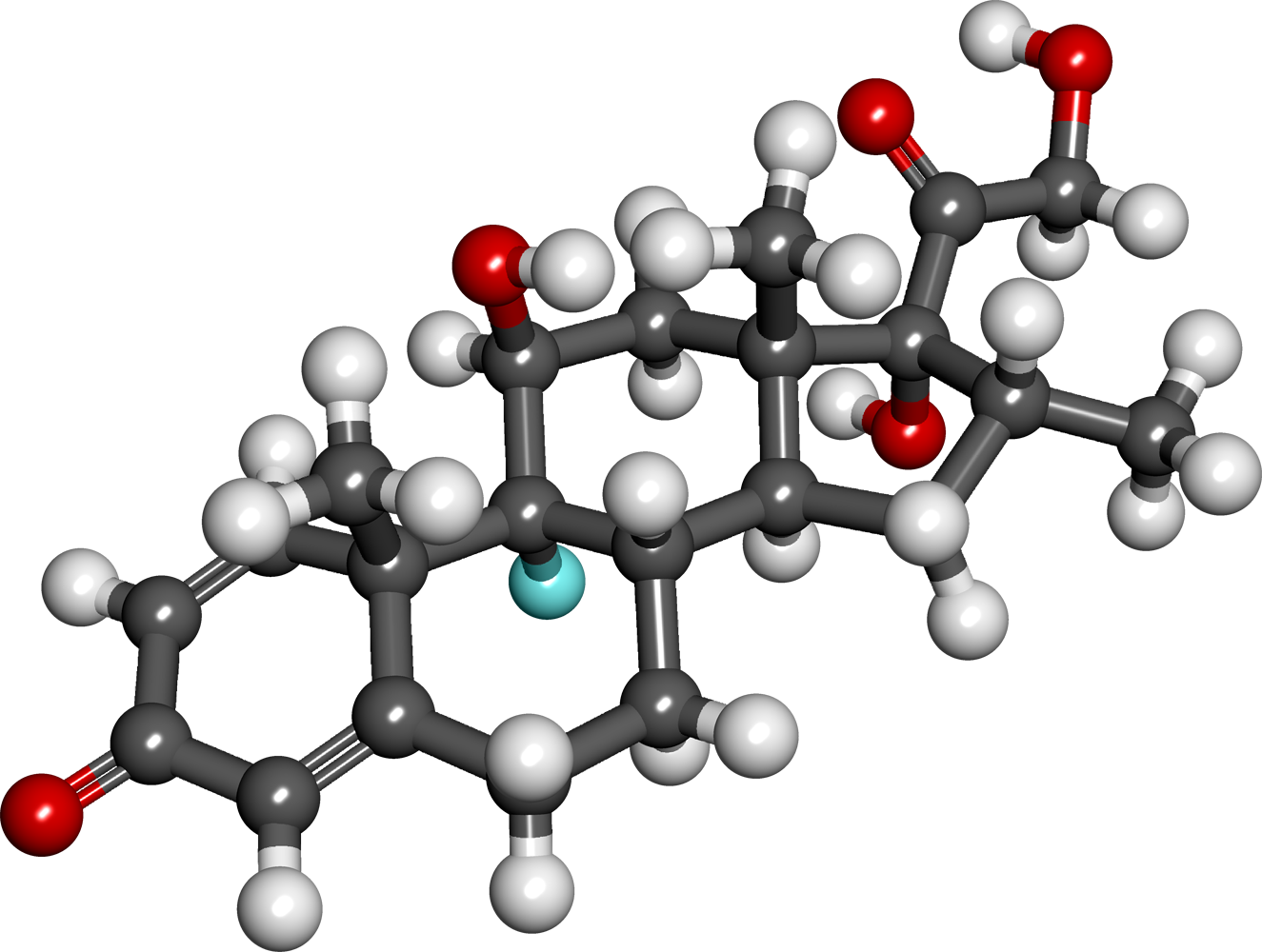 Ball-and-stick model of the immunosuppressant drug dexamethasone